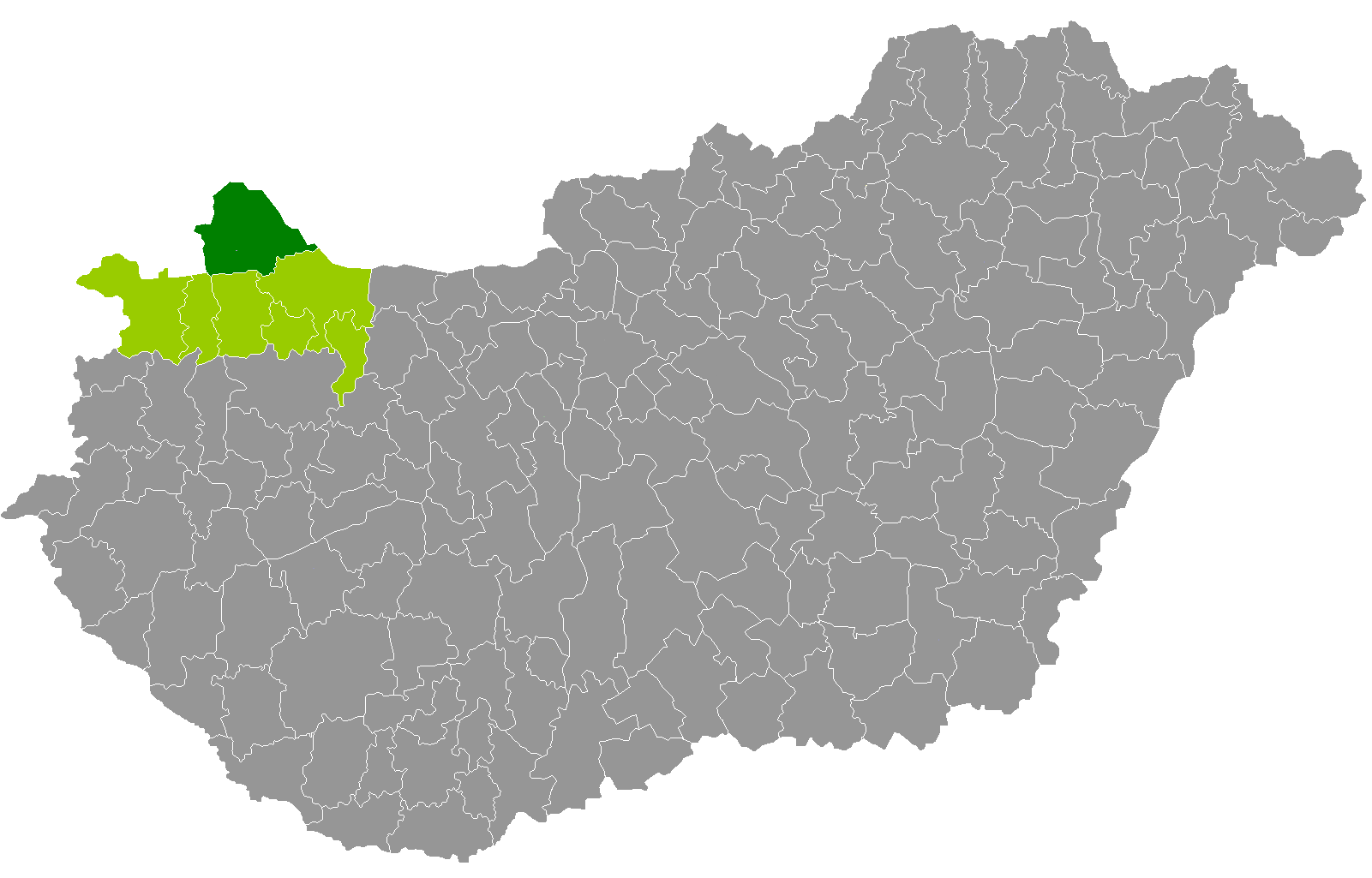 Location of Mosonmagyaróvár District, Győr-Moson-Sopron, Hungary